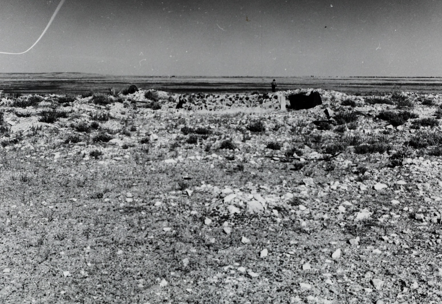 Ruins of Charlotte Waters Telegraph Station, Northern Territory, Feb. 1982